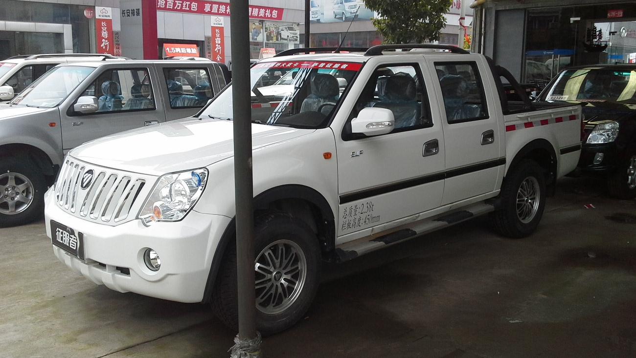 Foton SUP photographed in Wuhan, Hubei province, China.